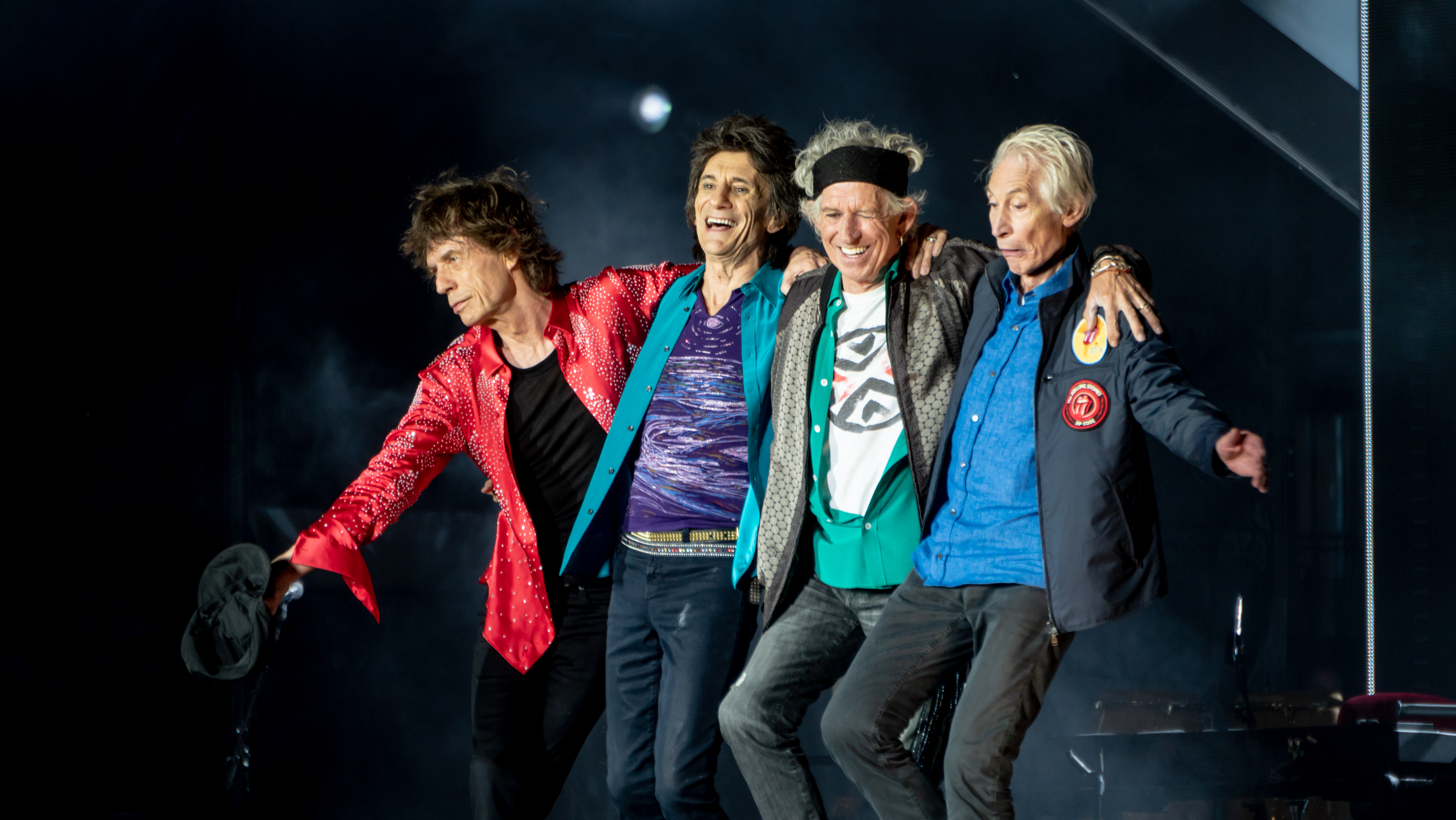 From left: Mick Jagger, Ronnie Wood, Keith Richards, Charlie Watts bow post-show 22 May 2018 in London.